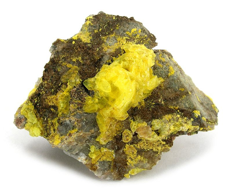 Liebigite Locality: Schwartzwalder Mine (Ralston Creek Mine), Ralston Buttes District, Jefferson County, Colorado, USA (Locality at ) Size: 6.4 x 4.9 x 2.6 cm. A very rare example of this fantastically beautiful mineral, one of the few species that forms the purest yellow crystals. The crystals here reach over 1 cm and are clustered nicely in the middle of the specimen. An American classic, it should be - but it’s so rare, that few know of it these days!